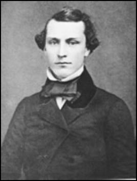 photo of Isaac J. Wistar, age 25, taken 1853, San Francisco, CA from Wistar, Isaac Jones (1827-1905). Autobiography of Isaac Jones Wistar, 1827-1905 (1914)